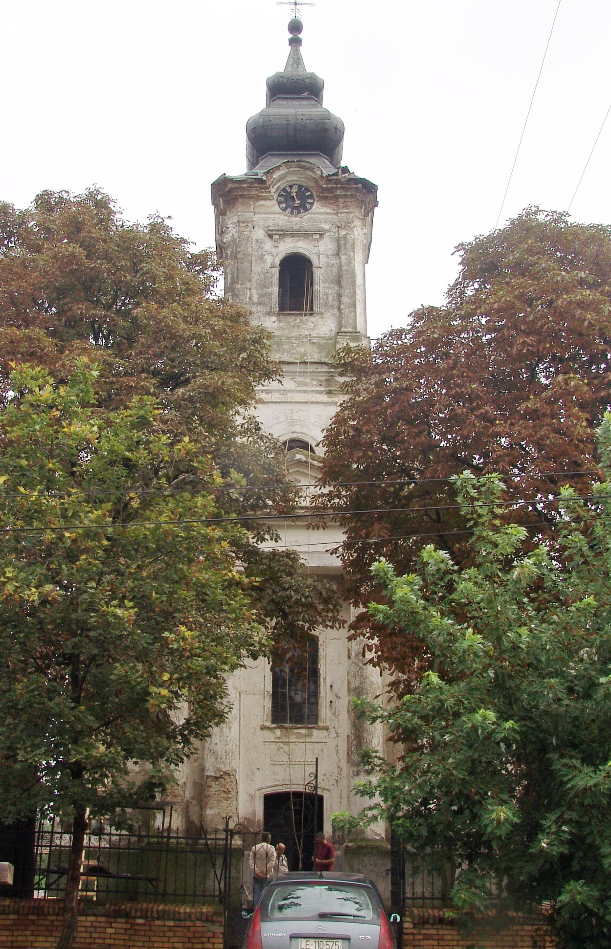 Serbian Orthodox church of Saint George in Taraš